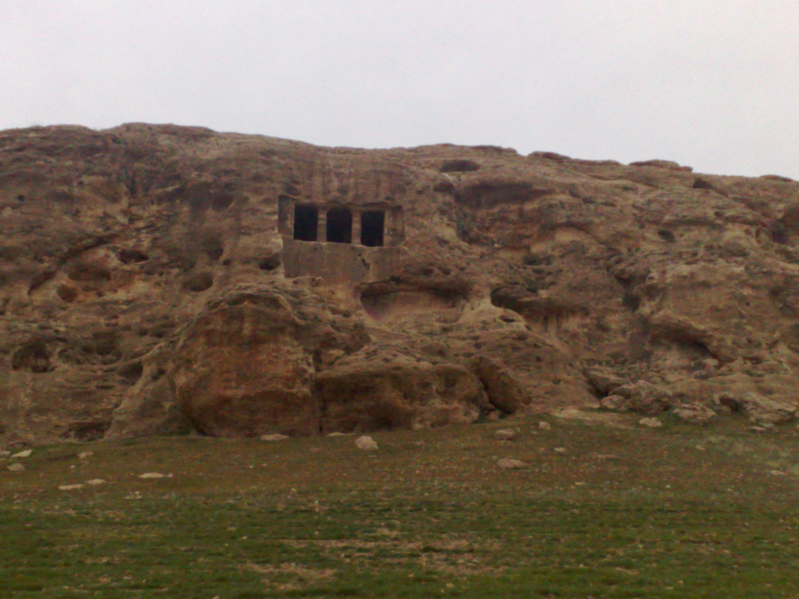 The view from the road